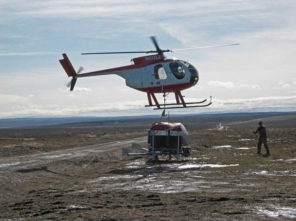 helicopter areial seeding